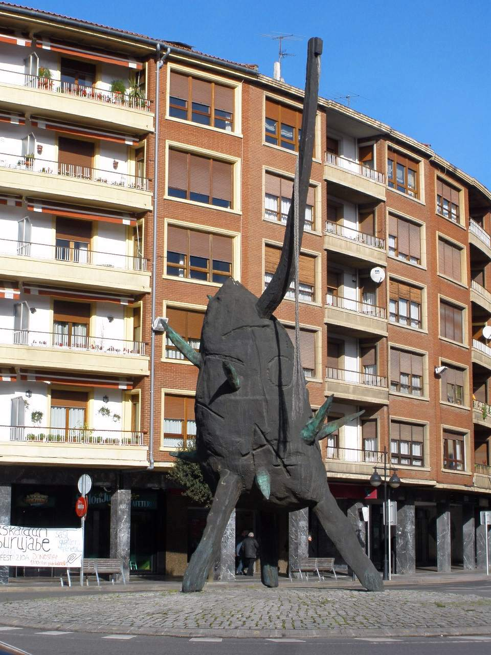 Escultura de Andrés Nagel en Amorebieta (Vizcaya)